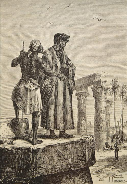 An illustration from Jules Verne's book "Découverte de la terre" ("Discovery of the Earth") drawn by Léon Benett. Ibn Battuta (1304-68/69) was a Moroccan Berber scholar and traveller